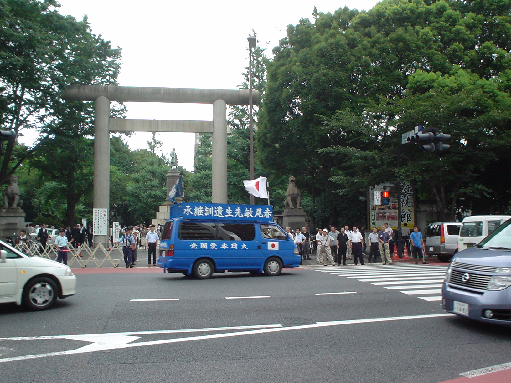 Noise trucks of the Japanese extreme right (uyoku) driving around the street at the Yasukuni shrine at August 15th, the anniversary of Japan's unconditional surrender in WW2